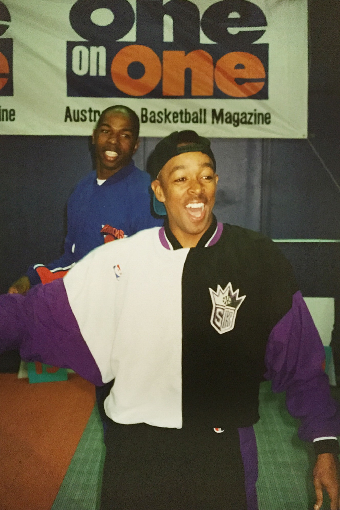 One on One basketball exhibition at Melbourne Olympic Park